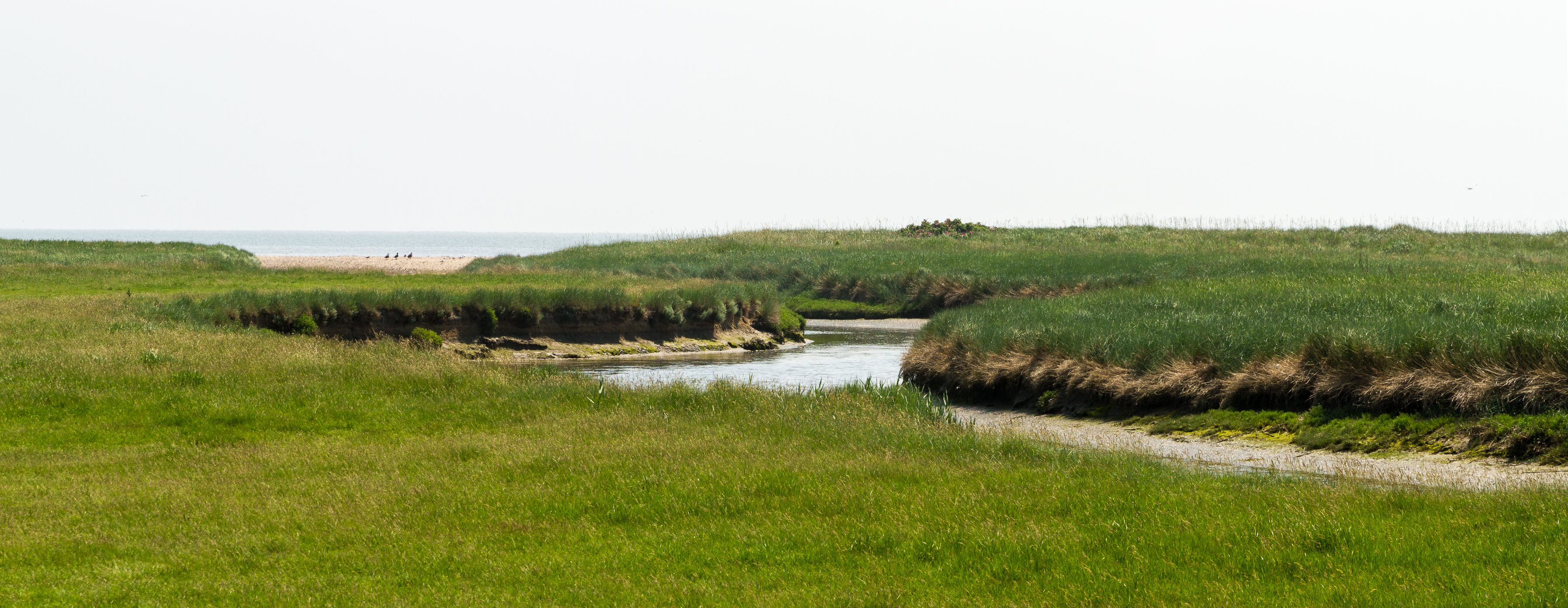 This is a picture of the protected area listed at WDPA under the ID 555537239 Designation: Godel lowland / Föhr Kind: Proposed Sites of Community Interest Nummer: DE-1316-301 Designation: Ramsar Convention Schleswig-Holstein Wadden Sea and adjacent coastal areas Kind: Bird reserve Nummer: DE-0916-491 Description: On the south coast of the island of Föhr, the creeks Godel, Wiel and Luer brings salt water in the lowland unprotected by levee below the edge of the geest. It is a extended salt marsh landscape in lagoon location which is crossed by the stream Godel. The lowland area is an important bird breeding and resting area. Place: Municipality Witsum, Collective municipality Föhr-Amrum, District Nordfriesland, Schleswig-Holstein, Germany Location: Klavertsweg